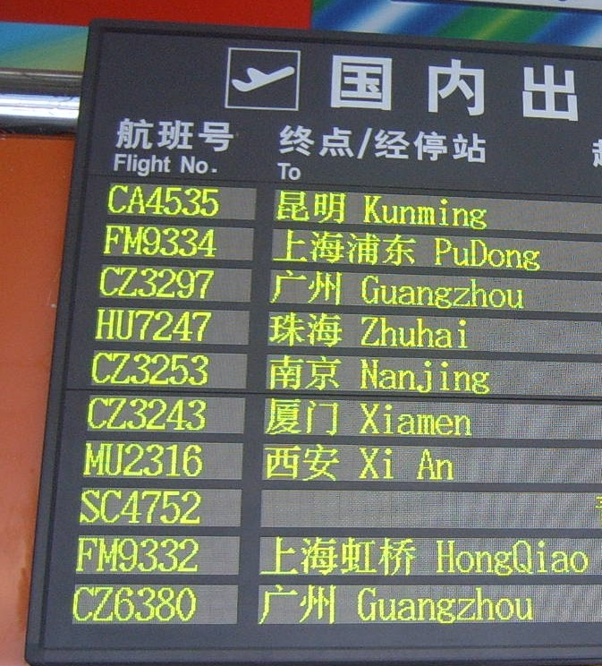 Guilin airport board